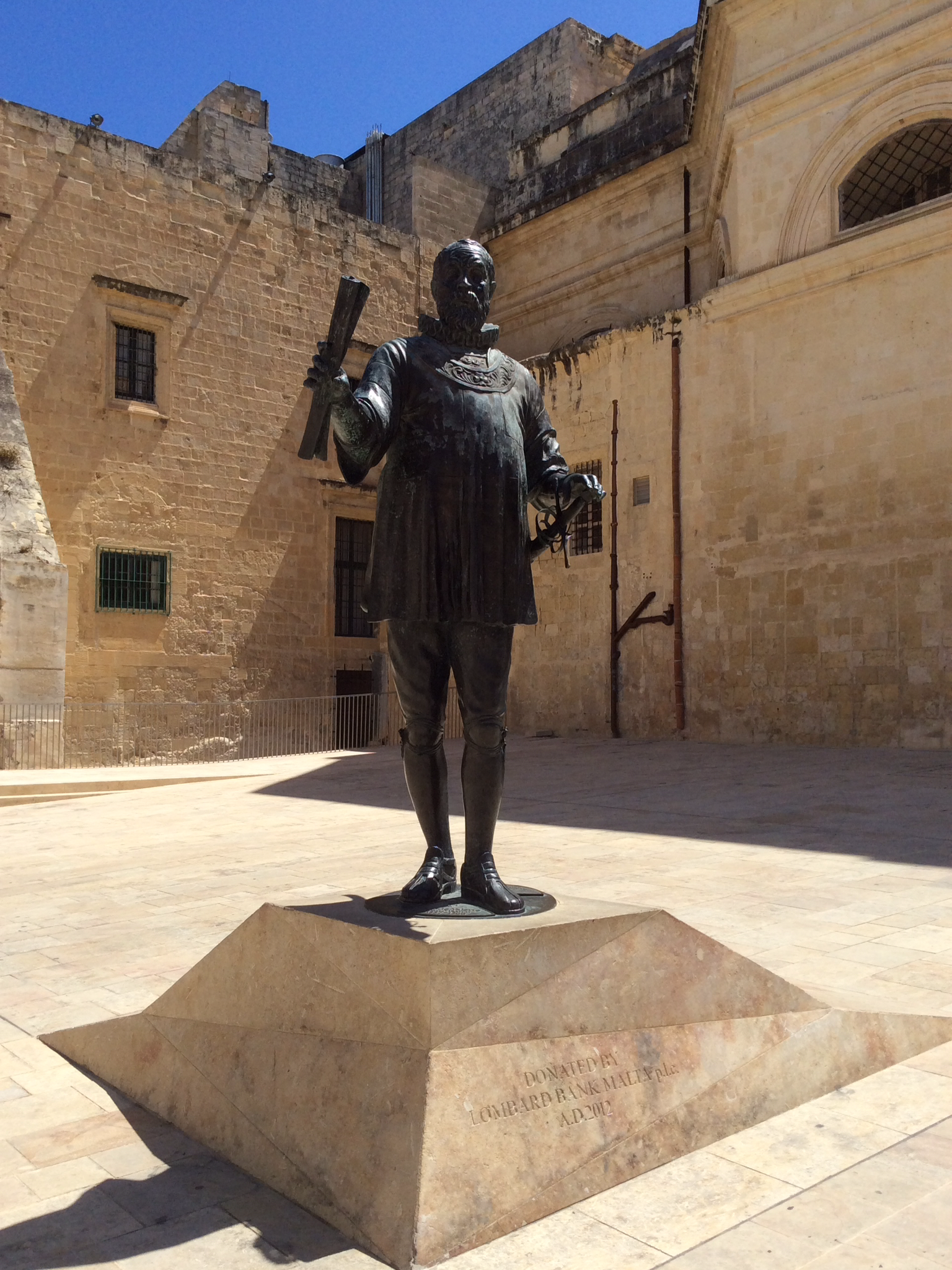 Jean de Vallette monument/Piaza